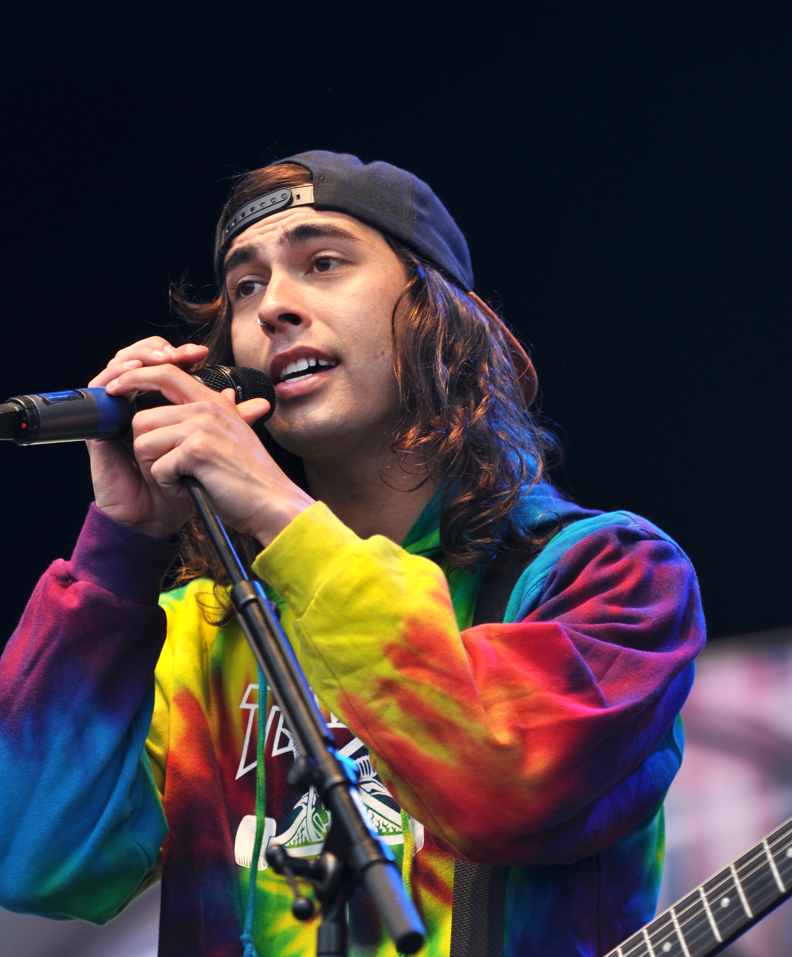 Vic Fuentes of Pierce the Veil at Rock am Ring 2013